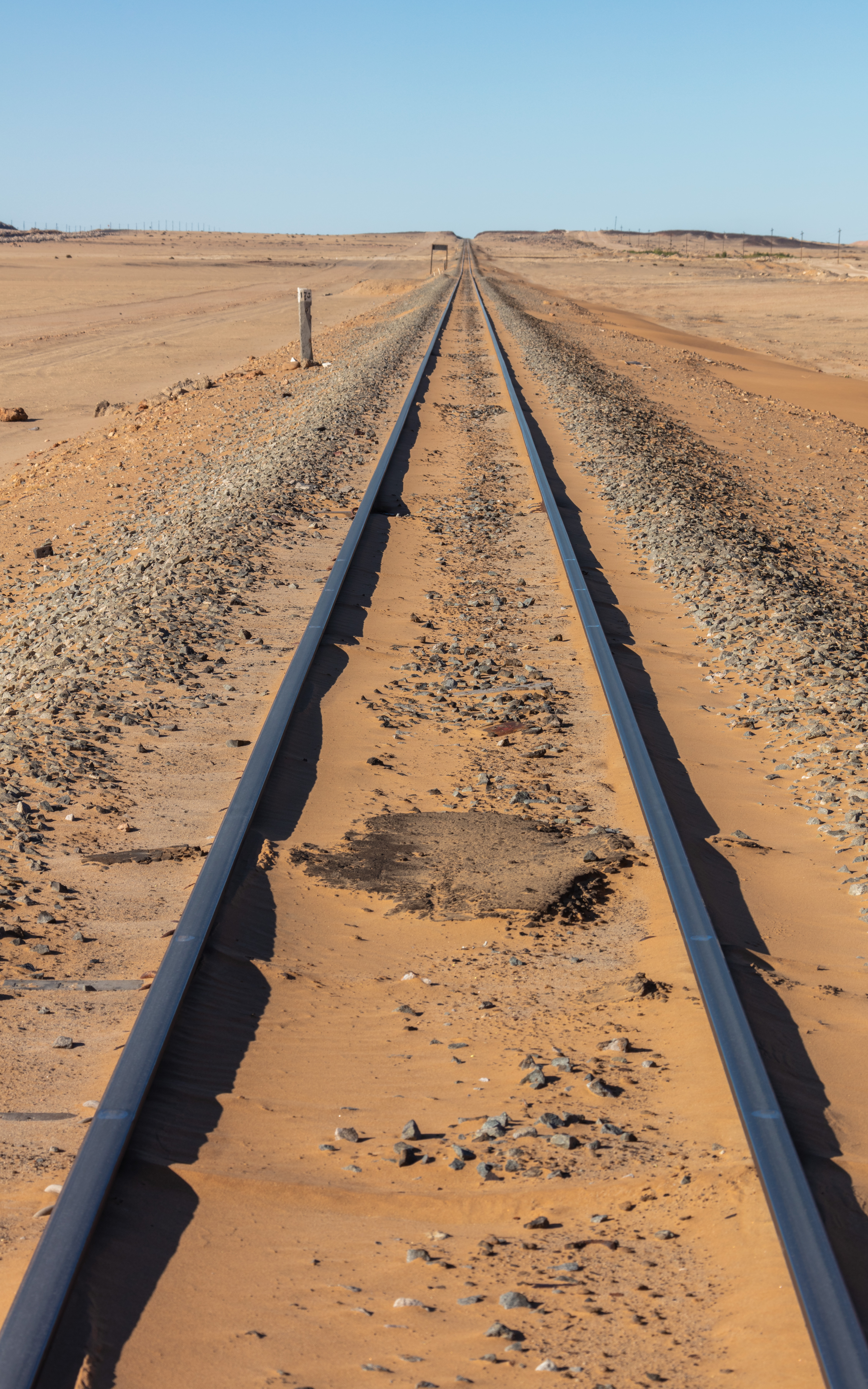 Rail track Swakopmund-Walvis Bay, Namibia